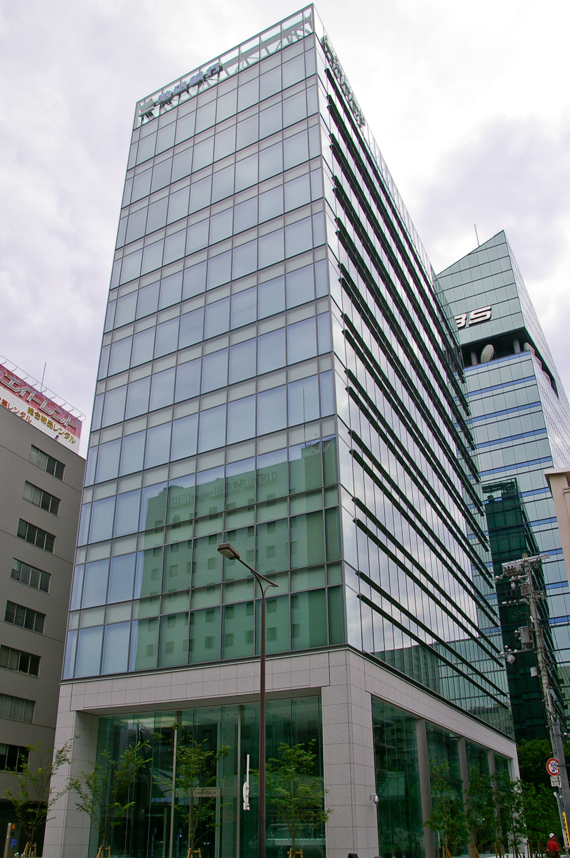 Photograph of Osaka Umeda Ikegin Building, headquarters of Senshu Ikeda Holdings, in Kita-ku, Osaka, Osaka Prefecture, Japan.